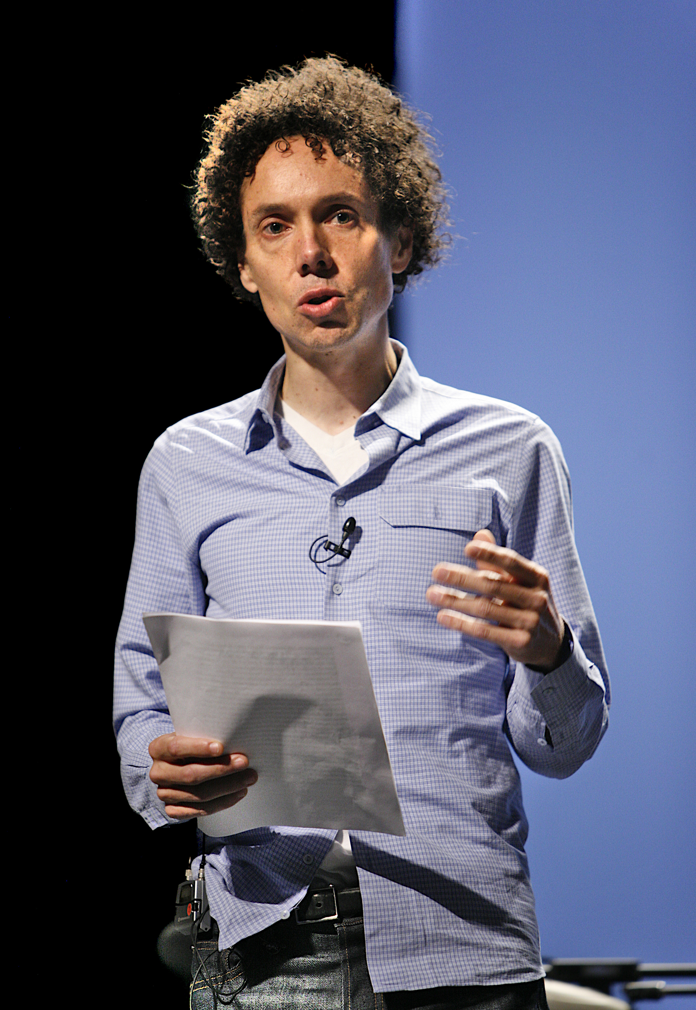 Malcolm Gladwell speaks at PopTech! 2008 conference.